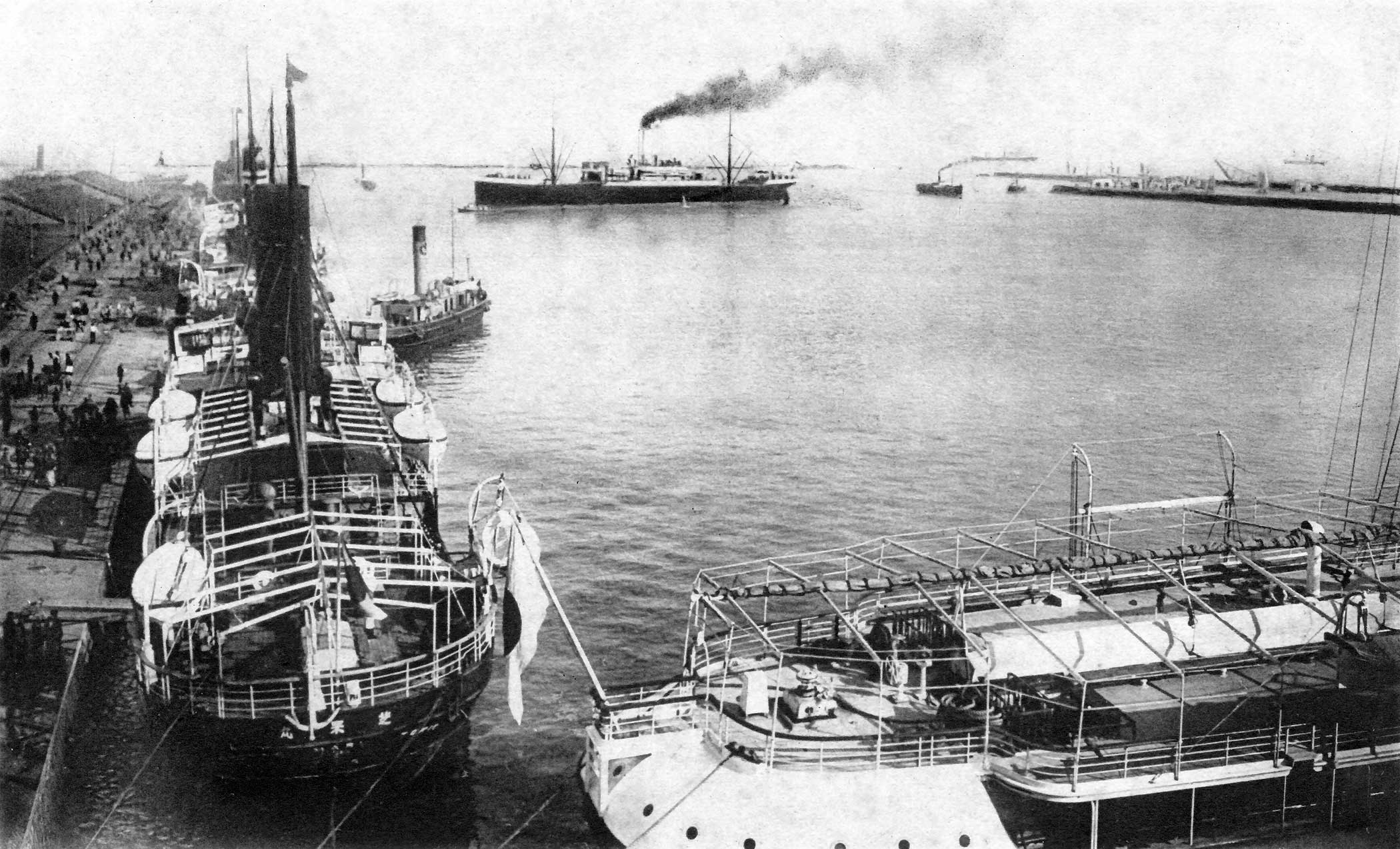 CHIFOO MARU was moored at No.2 wharf of Dalian(Dairen) Port.